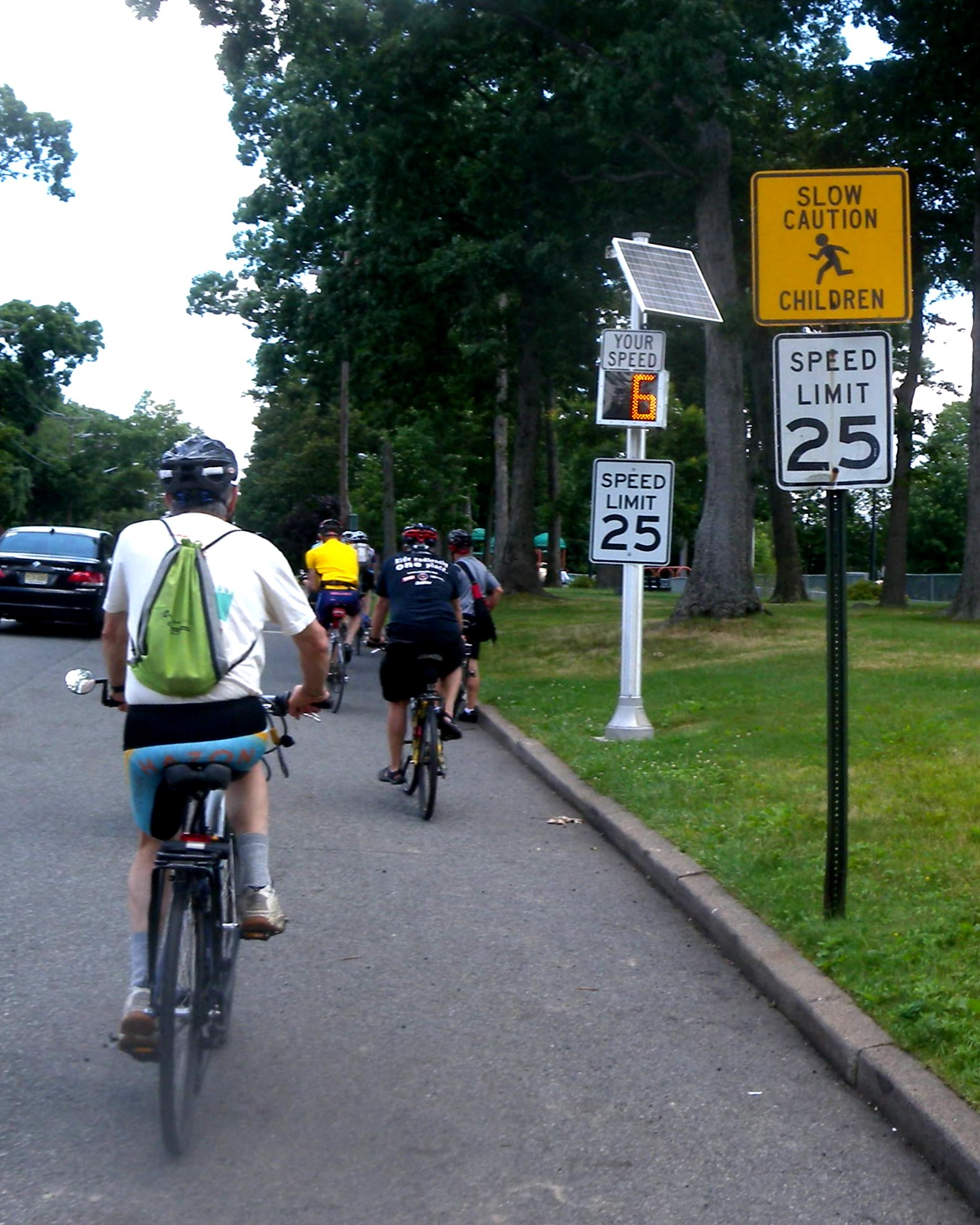 Looking northeast on a mostly cloudy morning as bikers climb past a speed radar sign on Johnson Avenue in Englewood Cliffs.